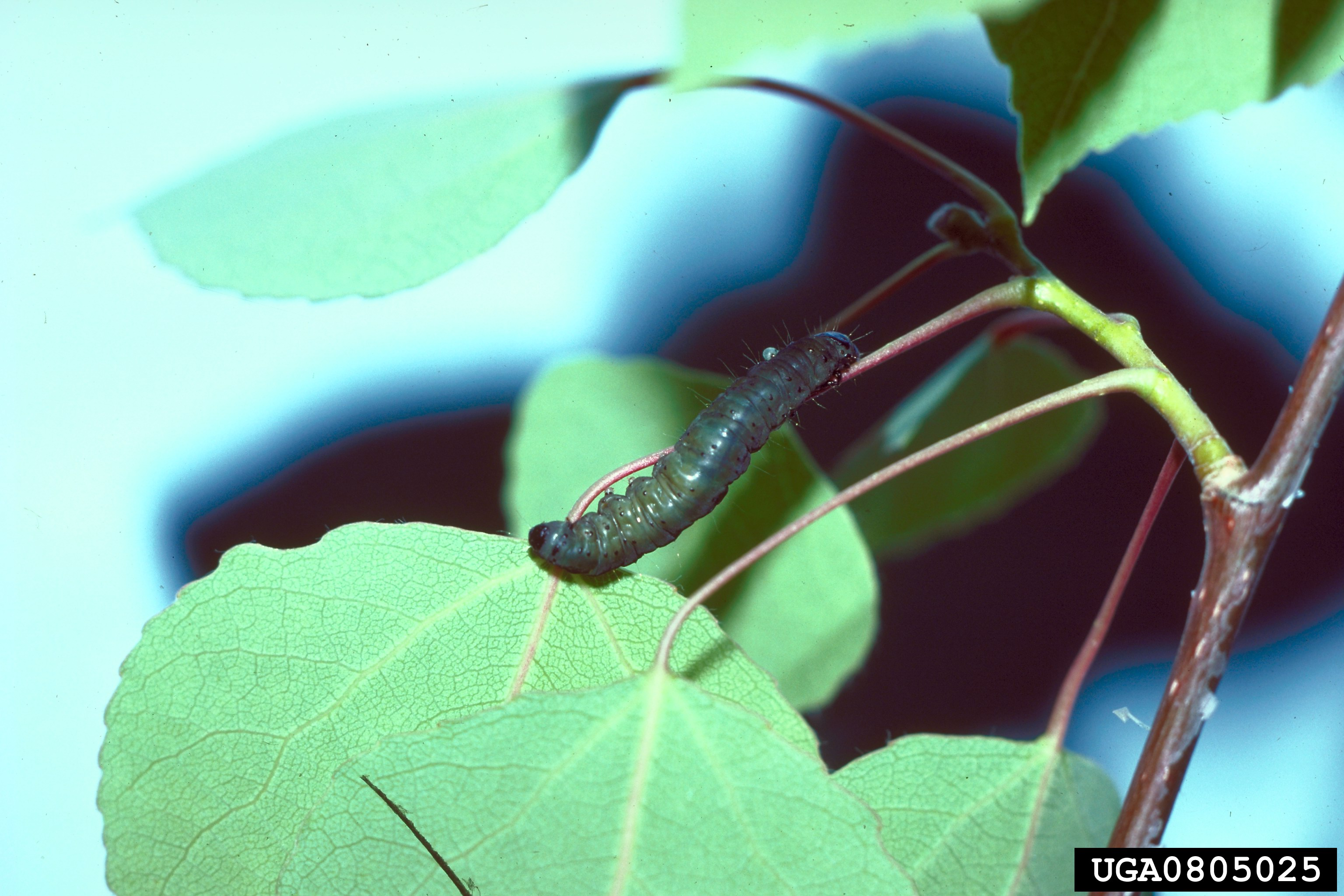 Choristoneura conflictana larva